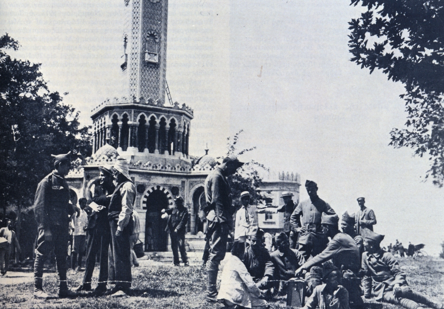 Greek soldiers and civilians in front of Smyrna clock in the summer of 1920. After the Treaty of Sevres.